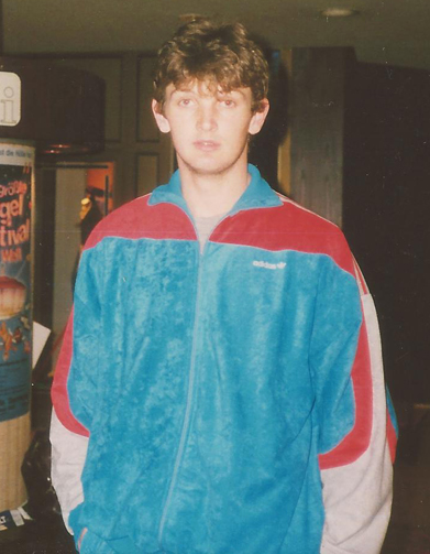 A photo of Žarko Paspalj in West Germany taken in 1988.